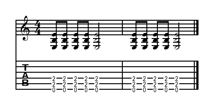 power chord E5